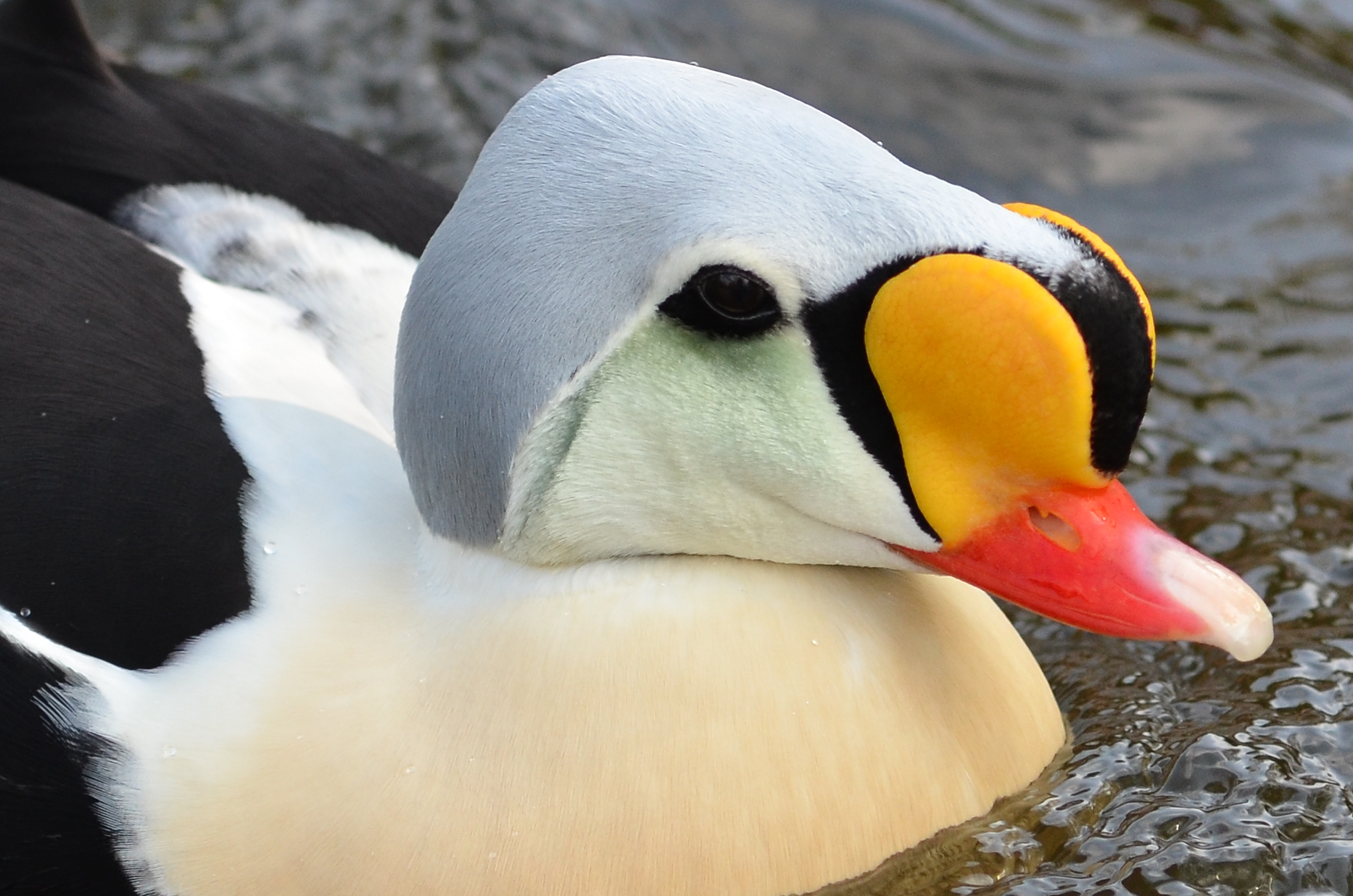 The conspicuous head of a King Eider (Somateria spectabilis) (male) at Weltvogelpark Walsrode (Walsrode Bird Park, Germany)